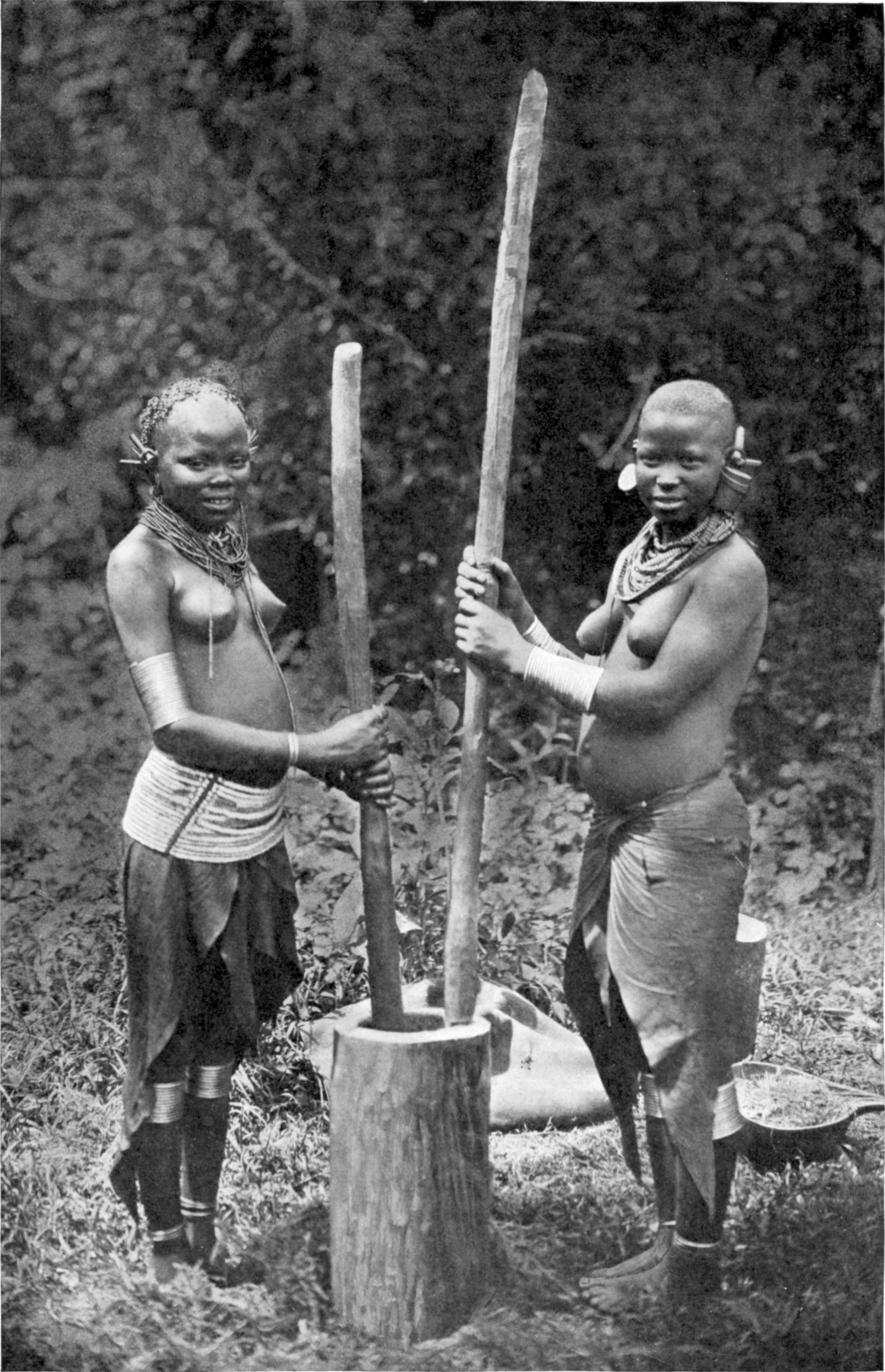 Kikuyu girls pounding grain. Showing the curious methods of ear distortion.